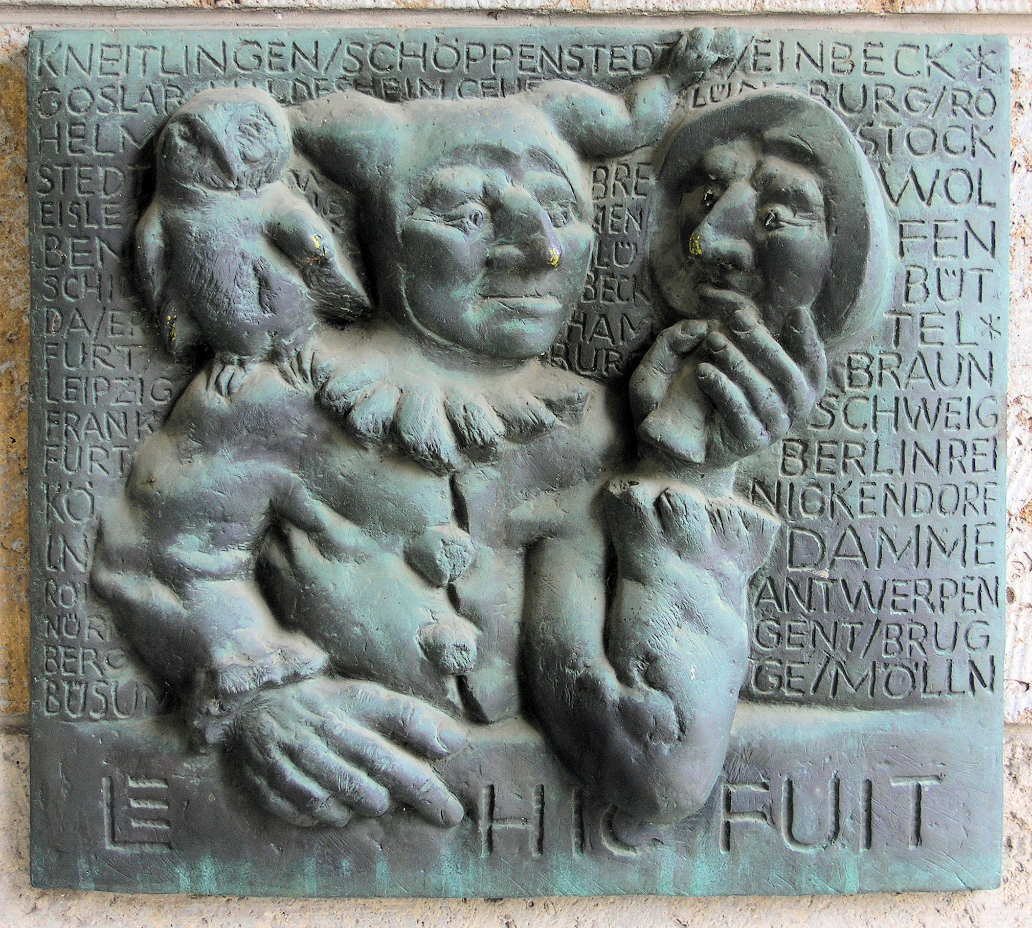 Memorial plaque, Till Eulenspiegel, Eichborndamm 215, Berlin-Wittenau, Germany Koordinate:52°35′23″N 13°19′30″E / 52.58972°N 13.325°E